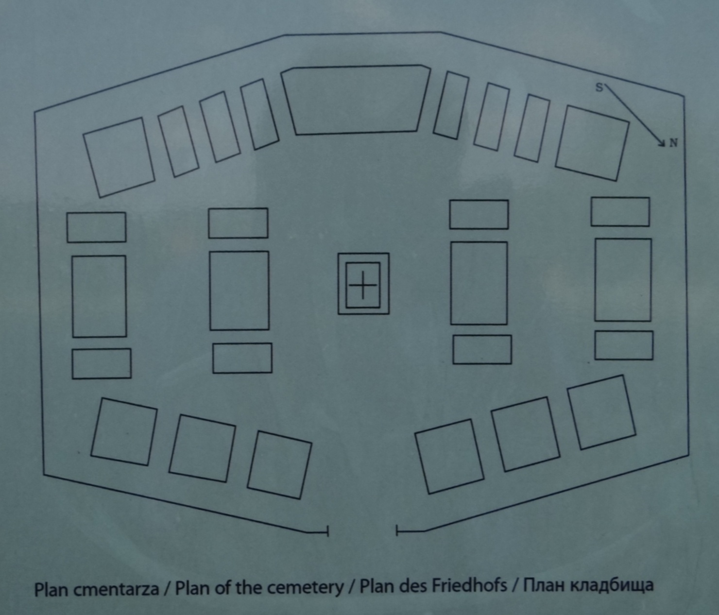 World War I Cemetery nr 165 in Bistuszow